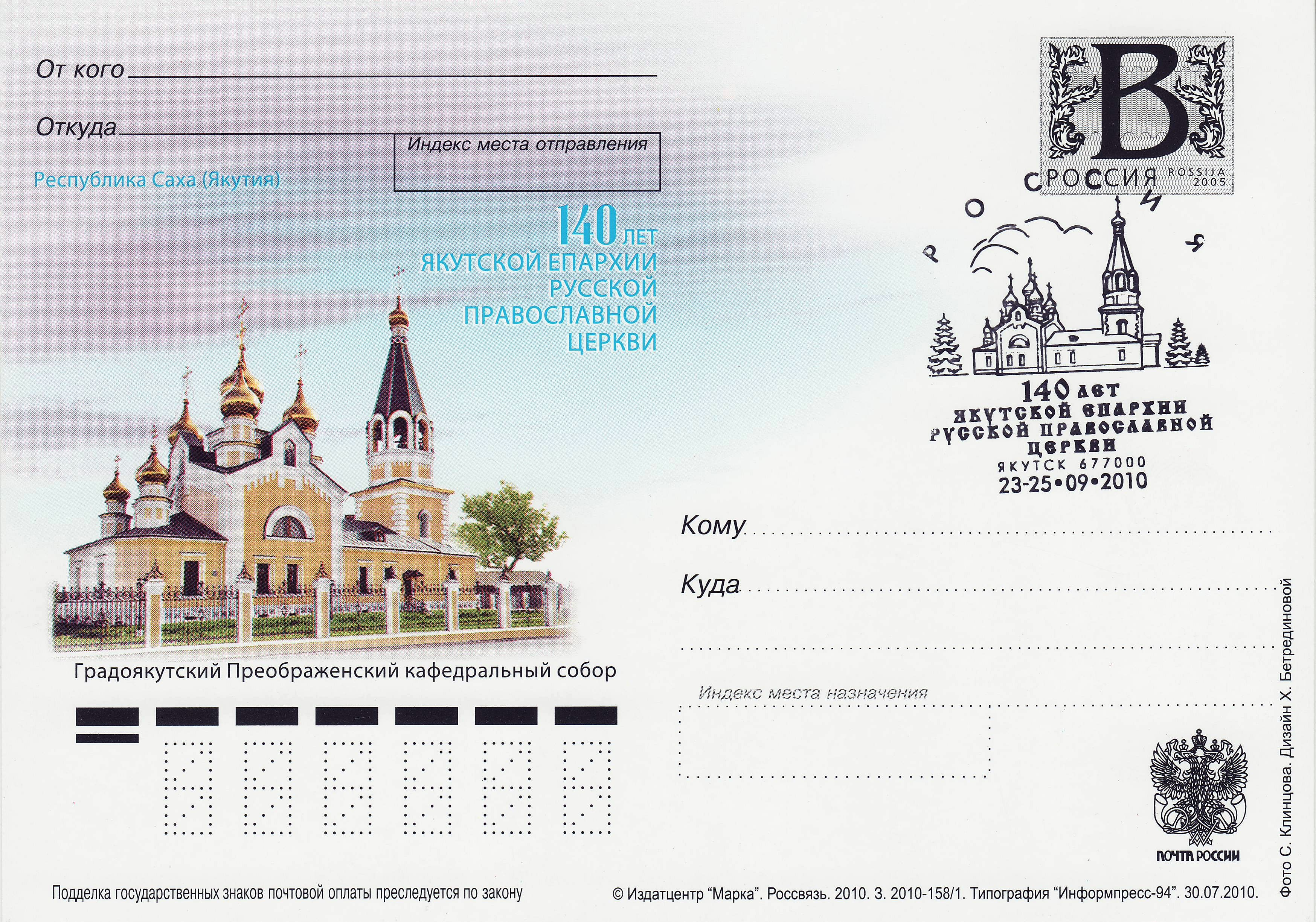 140-years Anniversary of the Yakutsk Eparchy of Russian Orthodox Church. Transfiguration Cathedral in Yakutsk city. The postal card with imprinted definitive non-denominated stamp 'Letter B', Russia, 30 July 2010, Catalogue of PTC Marka # 2010-158/1; pictorial cancellation, Yakutsk, 23-25 September, 2010.